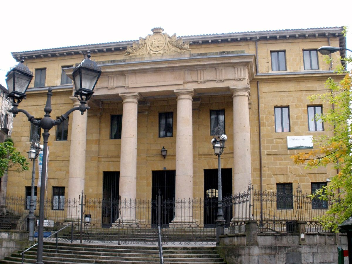 I.E.S Emilio Campuzano, en Achuri, Ibaiondo, Bilbao